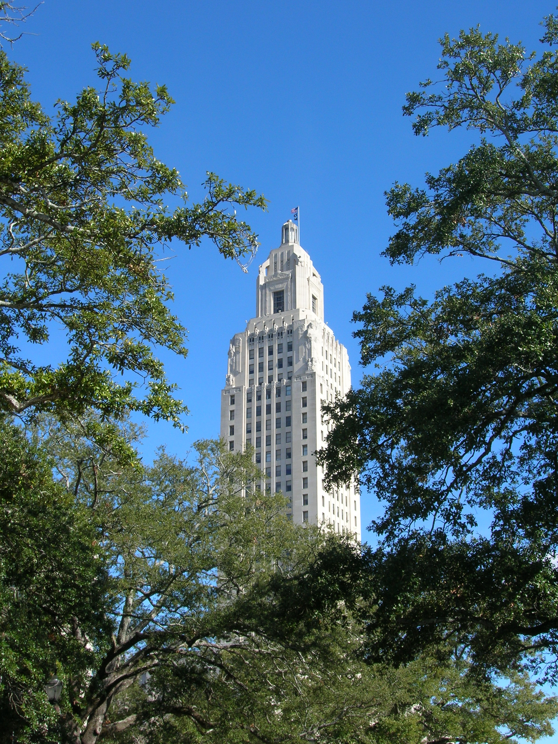 The Louisiana State Capitol building, located in Baton Rouge, Louisiana, is the tallest state capitol building in the United States of America. Photo taken by myself, "Scott Basford (Blinutne)", on 2005-12-27.